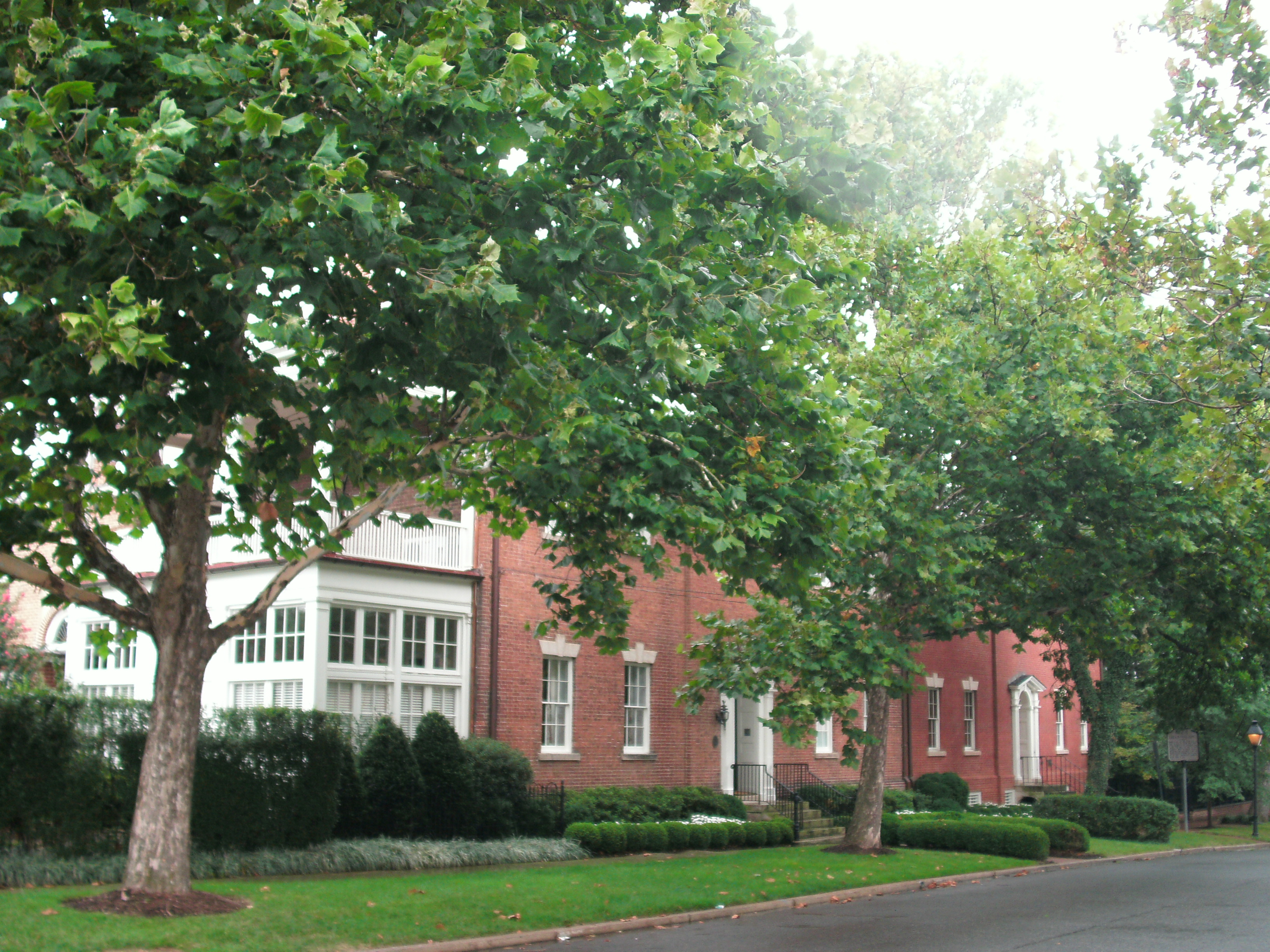 The Robert E. Lee Boyhood Home is an historic house at 607 Oronoco Street, Alexandria, Virginia.